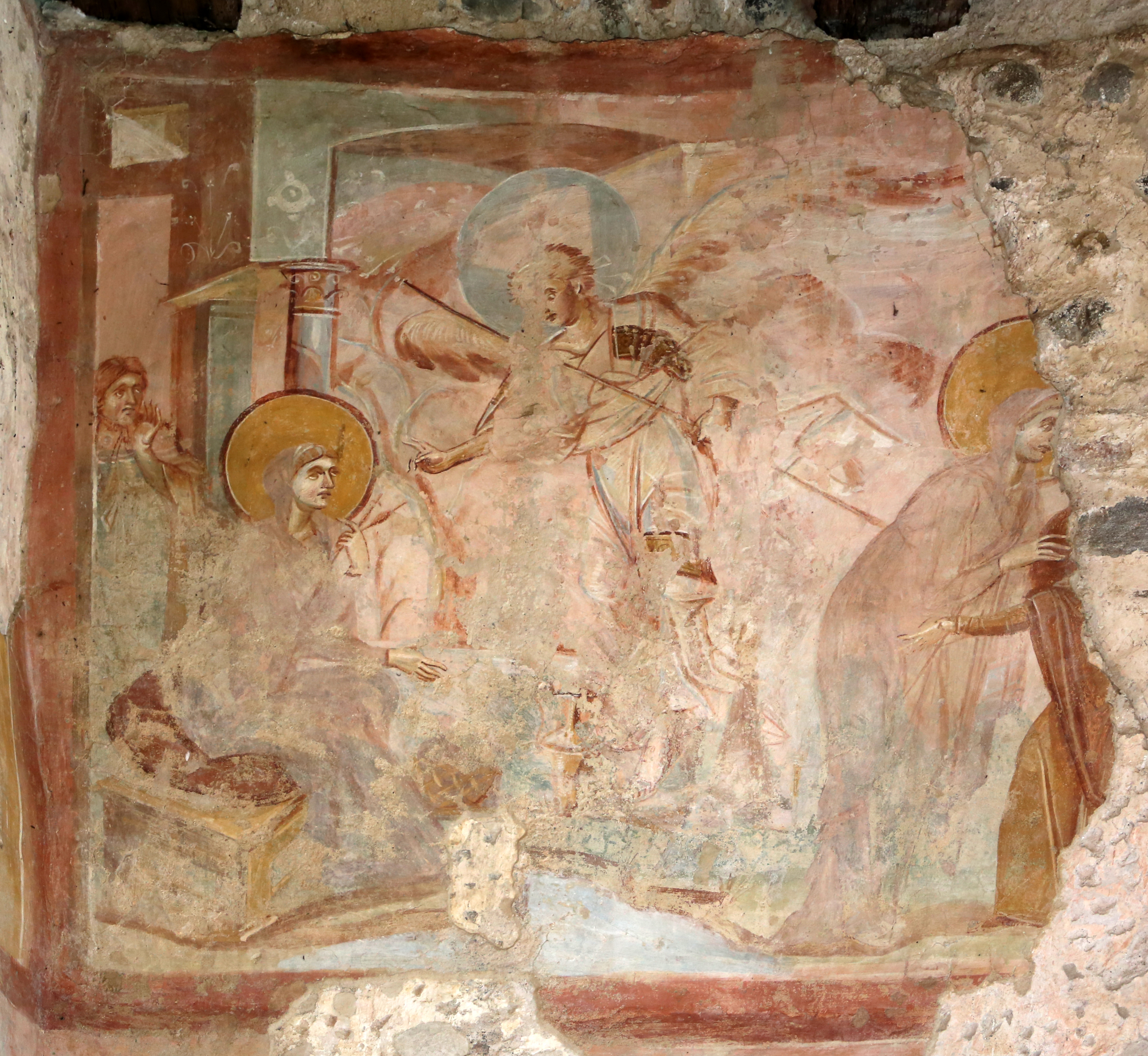 Santa Maria foris portas in Castelseprio